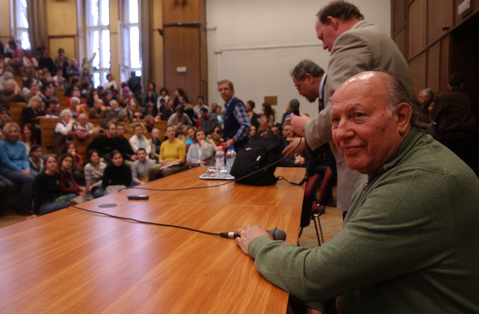 Imre Kertész on the University of Szeged in 2007.